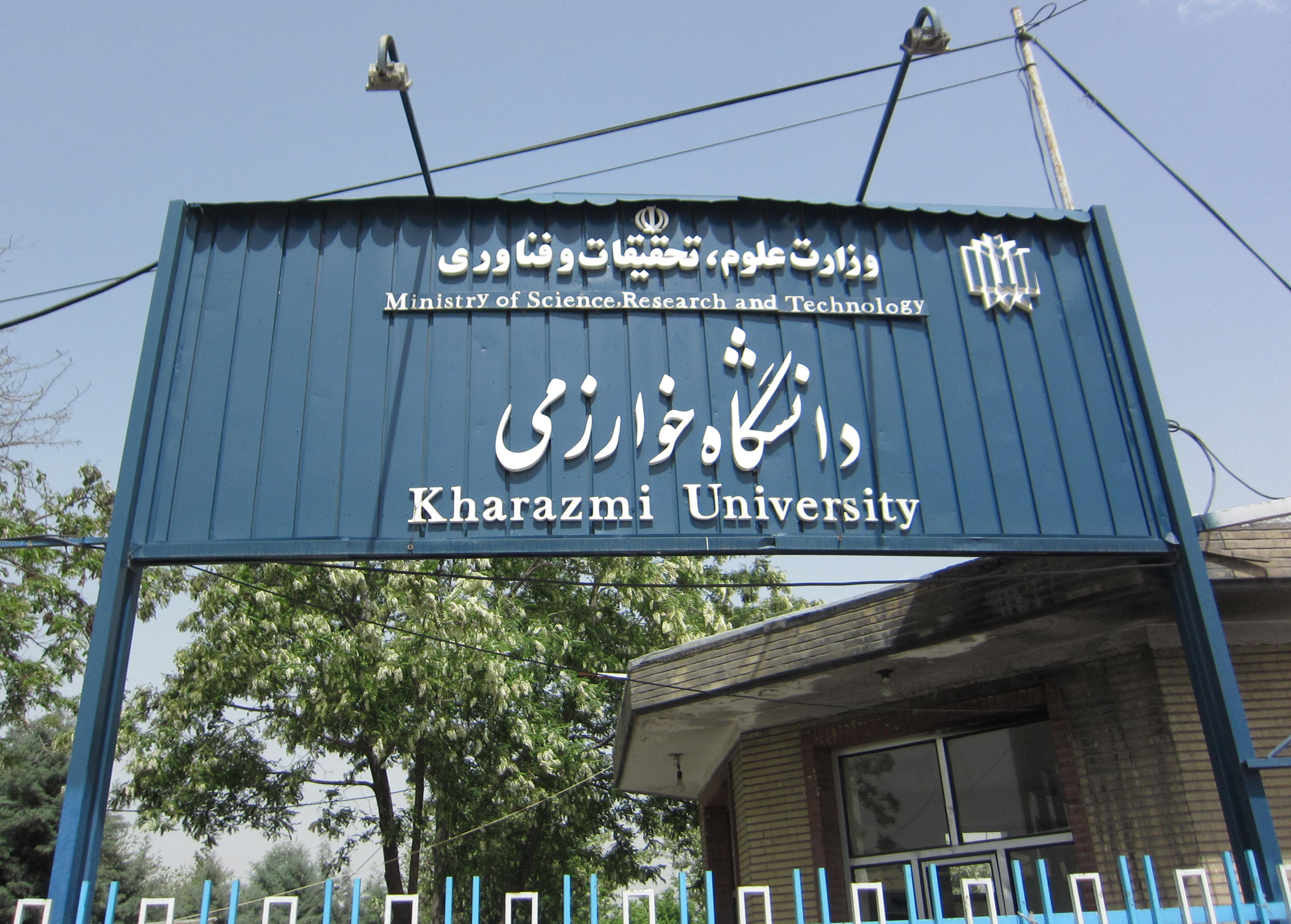 The gate of Kharazmi University in Hesarak, west of Karaj